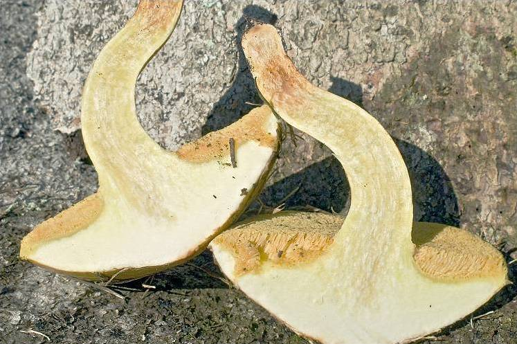 A bisected fruitbody of the bolete fungus Suillus bovinus.Habitat: Mixed wood side, dominant Pinus nigra, Picea abies, Fagus sylvatica and other hardwoods, with some ground vegetation; almost flat terrain, relatively sunny place, exposed to direct rain, average precipitations ~ 3.000 mm/year, average temperature 8-10 deg C, elevation 370 m (1.200 feet), alpine phytogeographical region. Substratum: Soil under Pinus nigra. Place: Bovec basin, west of golf playground, west of Bovec, East Julian Alps, Posočje, Slovenia EC Comments: Growing solitary, a few fruitbodies in the vicinity. Pileus diameter 6-8 cm (2.3-3 inch). Cap yellow-ochre (oac855), pores and pore surface yellow-ochre (oac847), stipe yellow ochre (oac898), darker at the base (oac700), flesh yellow (oac856), no bruising observed, SP faint ocher (oac855); Spore dimensions: 8.4 (SD = 0.5) x 3.3 (SD = 0.1) micr., Q = 2.51 (SD = 0.16), n = 30. Motic B2-211A, magnification 1.000 x, oil, in water.